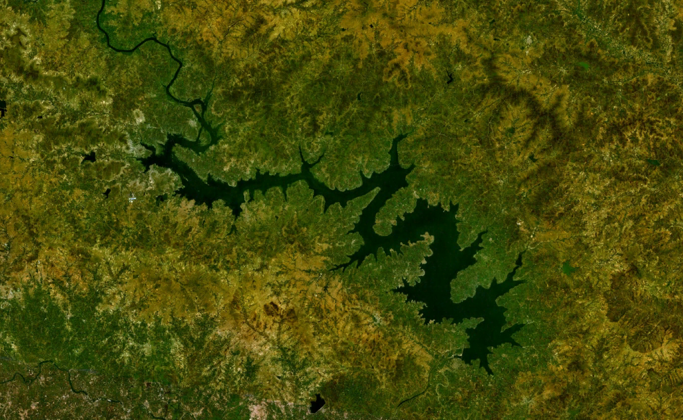 NASA Landsat 7 Imagery of Ujjani Dam Reservoir.